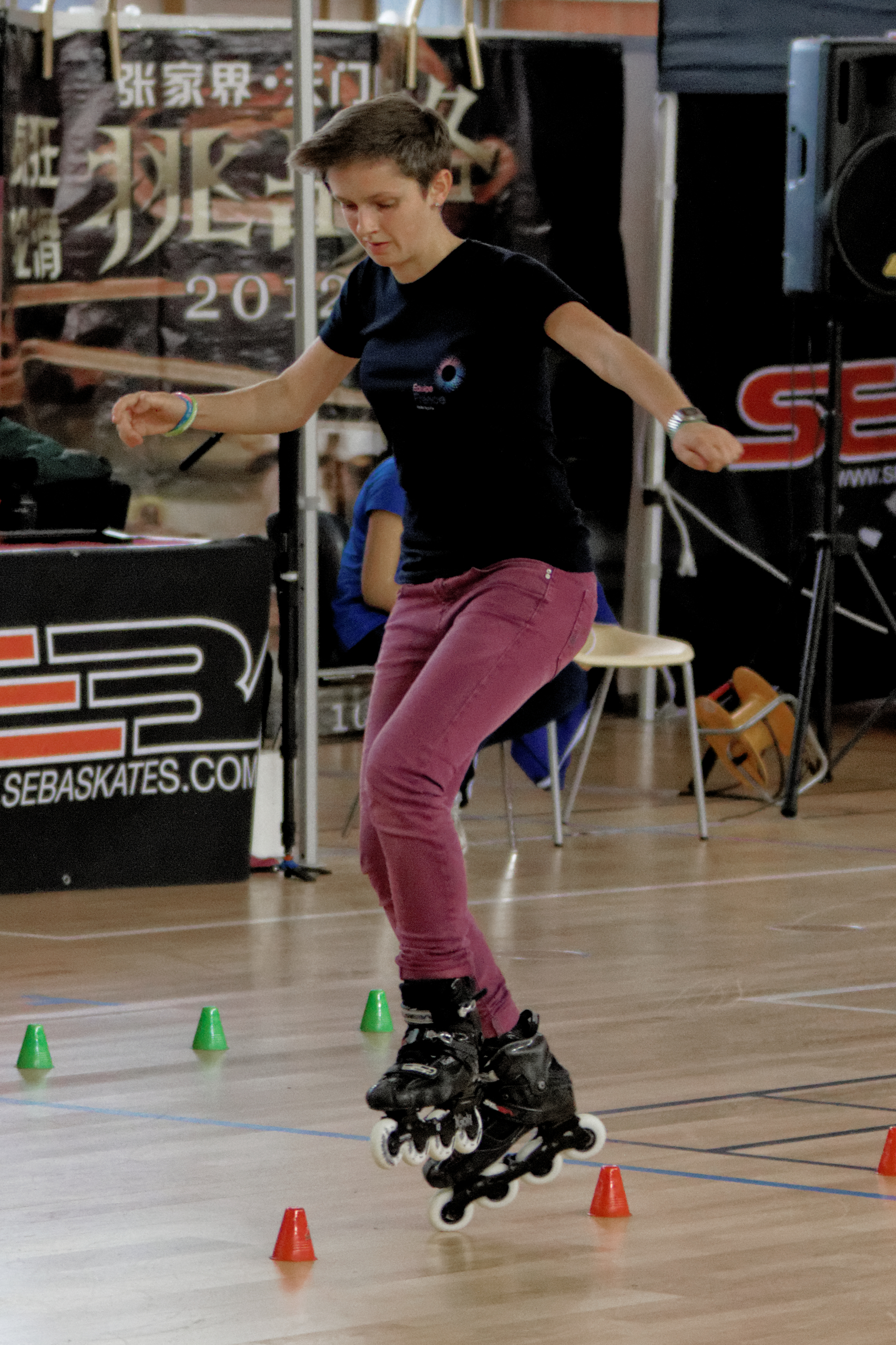 2014 World freestyle skating championships